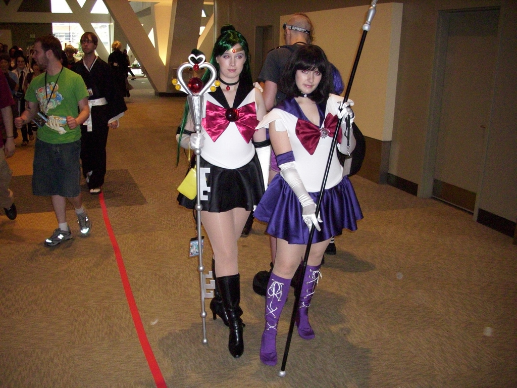 Cosplayers of Sailor Pluto and Sailor Saturn at Otakon 2009.